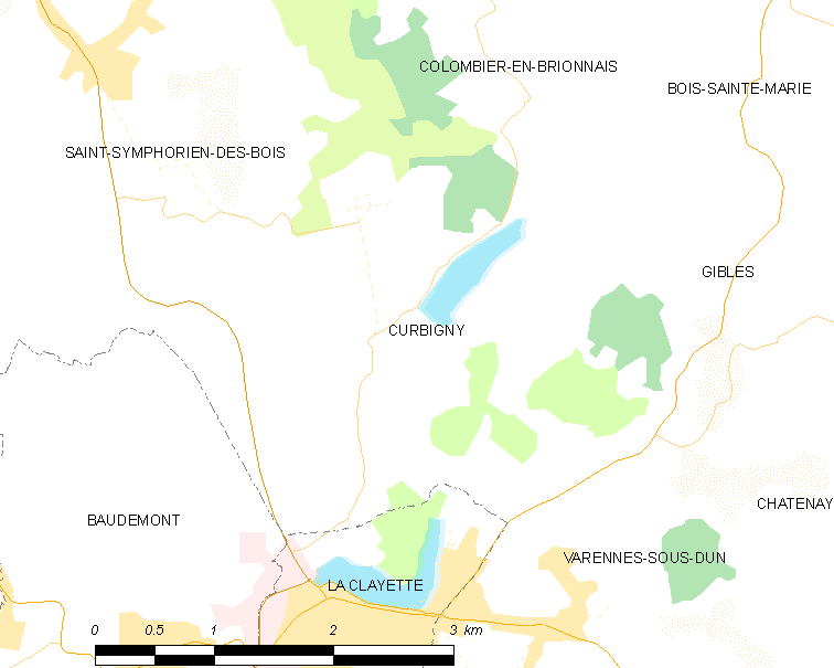 Map of French municipality